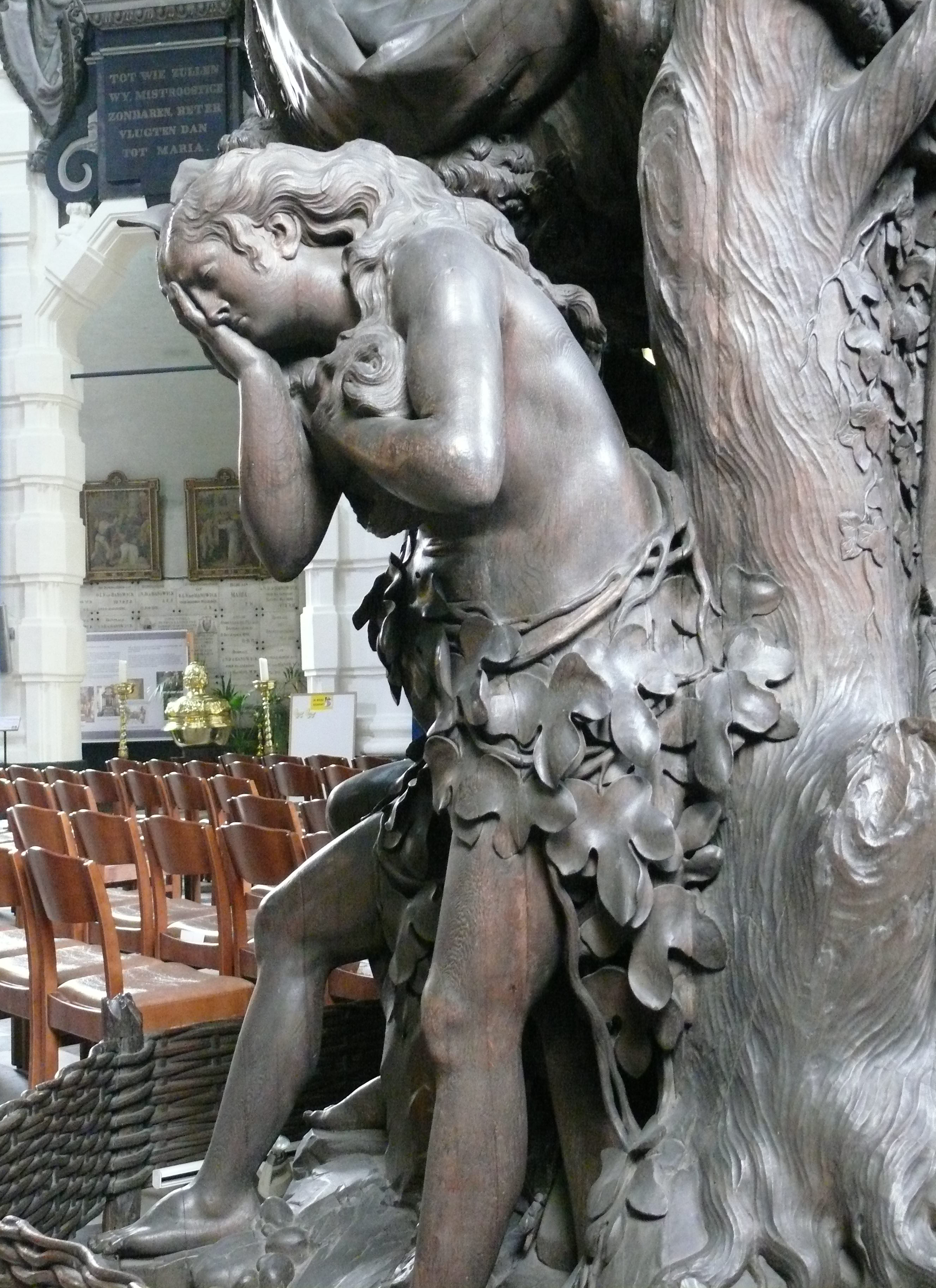 Detail of the pulpit by Theodoor Verhaegen (1700-1759), Payed by Alexander Rubens, in the Basilica of Our Lady of Hanswijk (Mechelen, Flanders, Belgium): the expulsion of Adam and Eve from Paradise after eating the forbidden fruit.